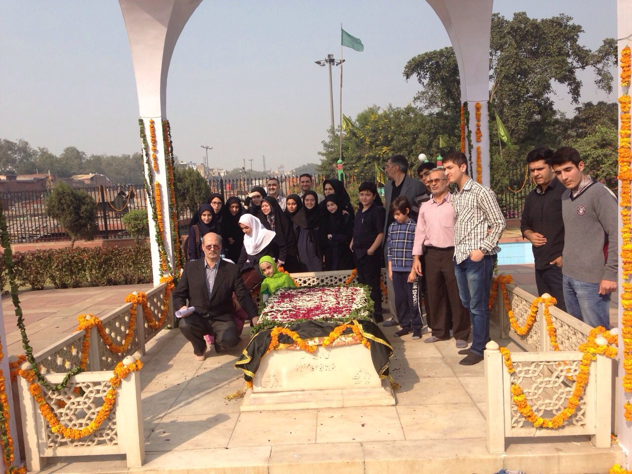 Abul Kalam azad